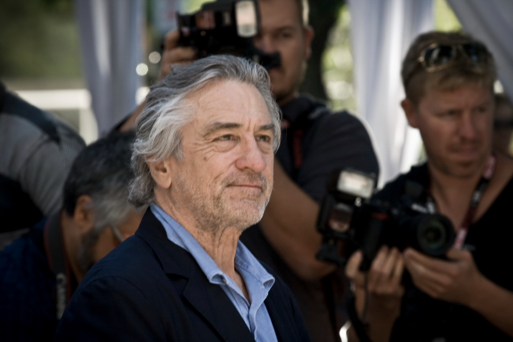 Robert De Niro at the Toronto International Film Festival 2011.